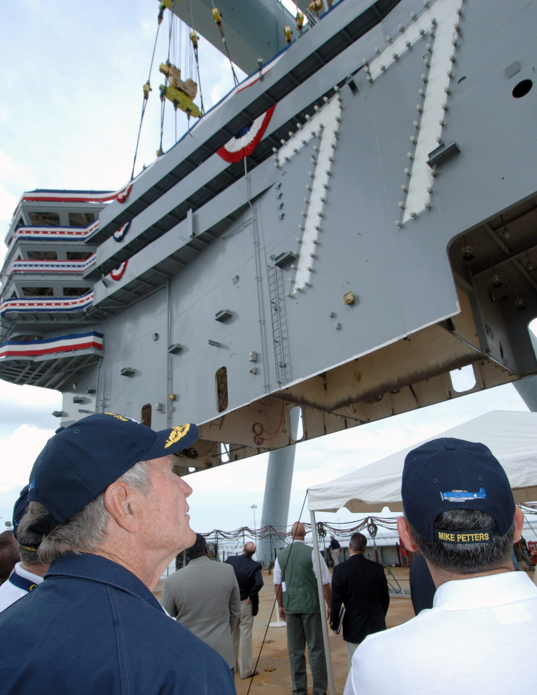 060708-N-8933S-004 Northrop Grumman Newport News Shipyard, Newport News, Va. – Aboard Pre Commissioning Unit George H.W. Bush (CVN 77), the ship’s namesake and 41st President of the United States, George H.W. Bush, left, observes the super lift Island landing ceremony, the last of 162 super lifts scheduled during the construction of the ship, placing the 700-ton superstructure on the ship’s flight deck. CVN-77 the tenth and last Nimitz-class aircraft carrier is scheduled for delivery to the U.S. Navy in late 2008.